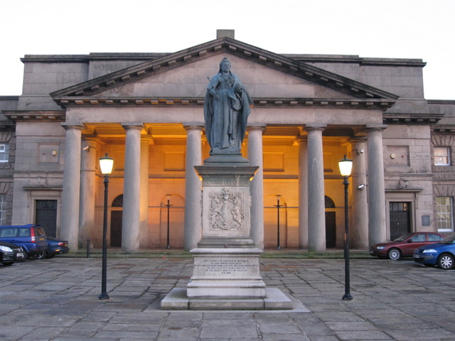 Queen Victoria in the Castle square. This statue of Queen Victoria stands in the Castle square in front of Thomas Harrison's Crown Court buildings. The statue was erected in 1903. See also 1090800